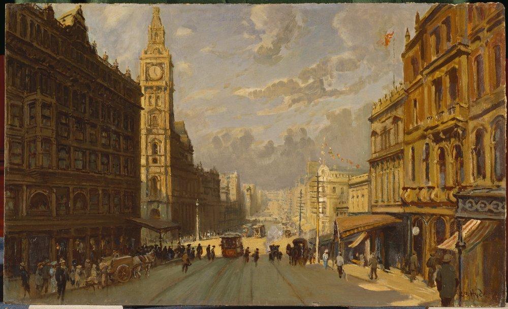 'Bourke Street east', a painting by George Hyde Pownall, in the collection of the State Library of Victoria, Australia.